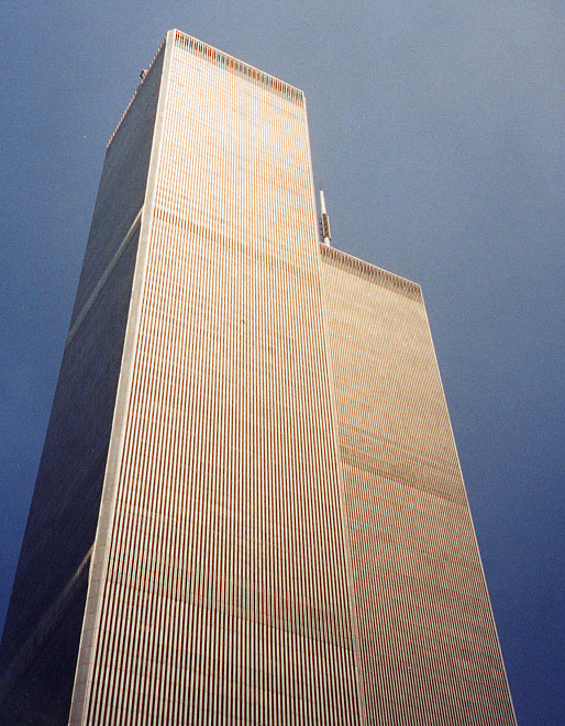 World Trade Center viewed the ground